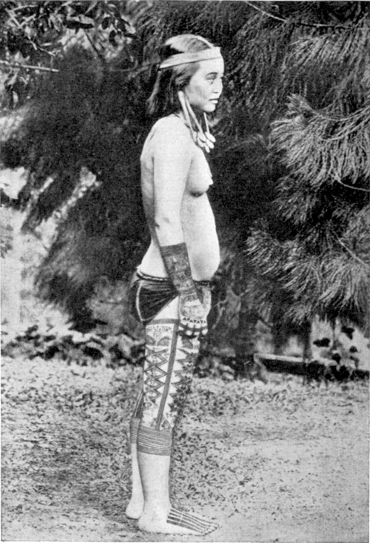 Kayan tattoo.The reasons for tattoo in the case of Kayan women are threefold : firstly, as a mode of ornamentation; secondly, as a means for warding off and curing illnesses; and, thirdly, on account of the superstition that the tattoo marks act as phosphorescent torches for the use of the deceased's spirit when making its long and weary journey to the abode of departed spirits.